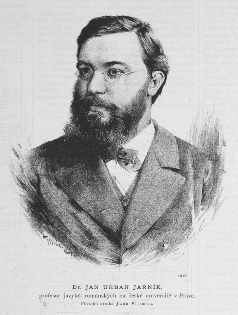 Portrait of Jan Urban Jarník (1848-1923), Czech professor of romance languages and promoter of Czech-Romanian cooperation.